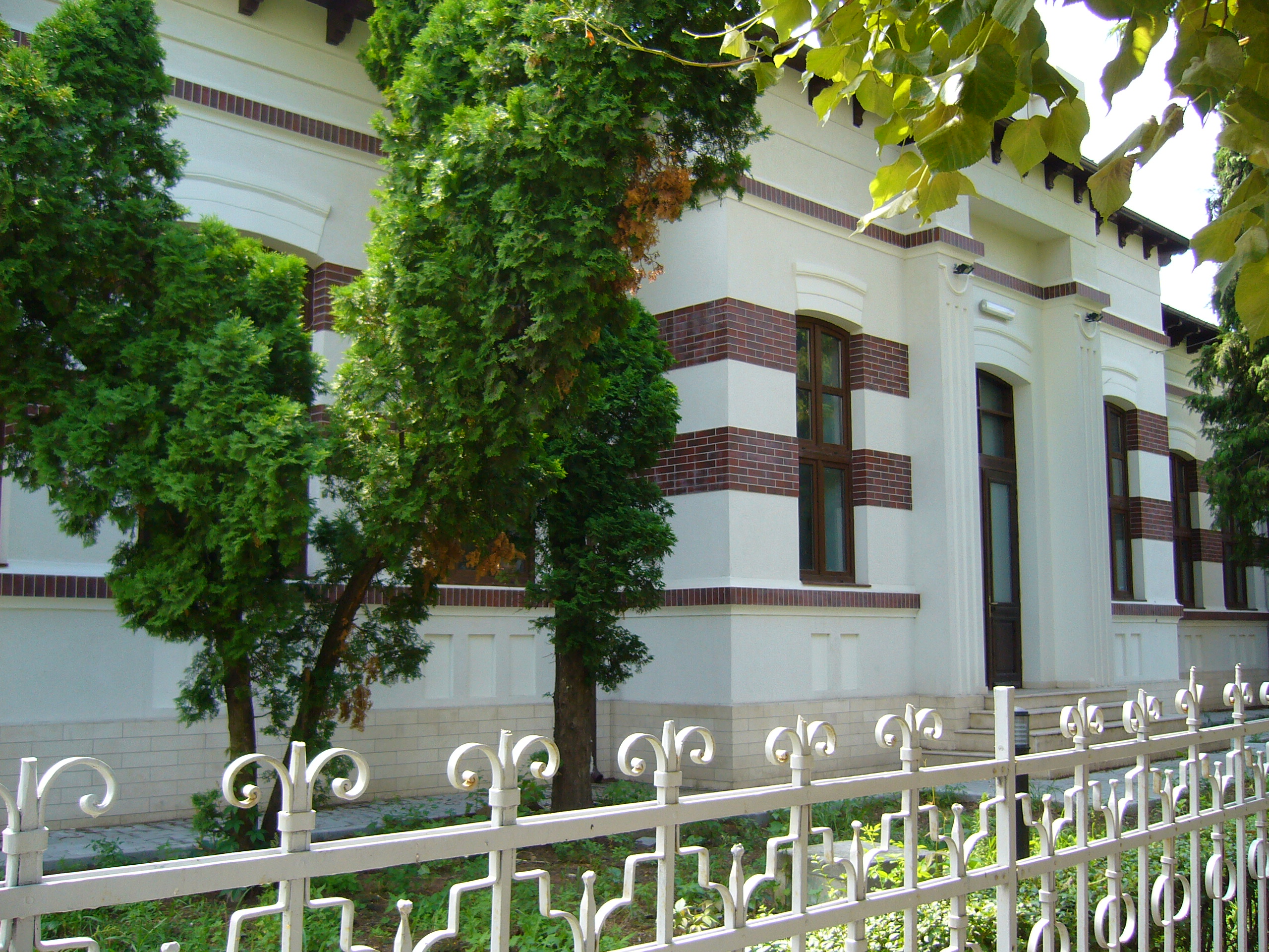 Dinu Lipatti Art High School in Piteşti, Romania (one of two buildings in use).